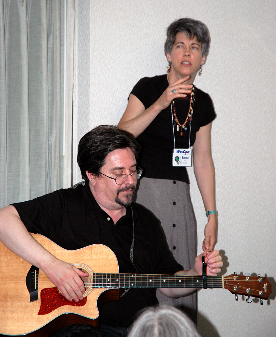 Photo by Leslie Howle.